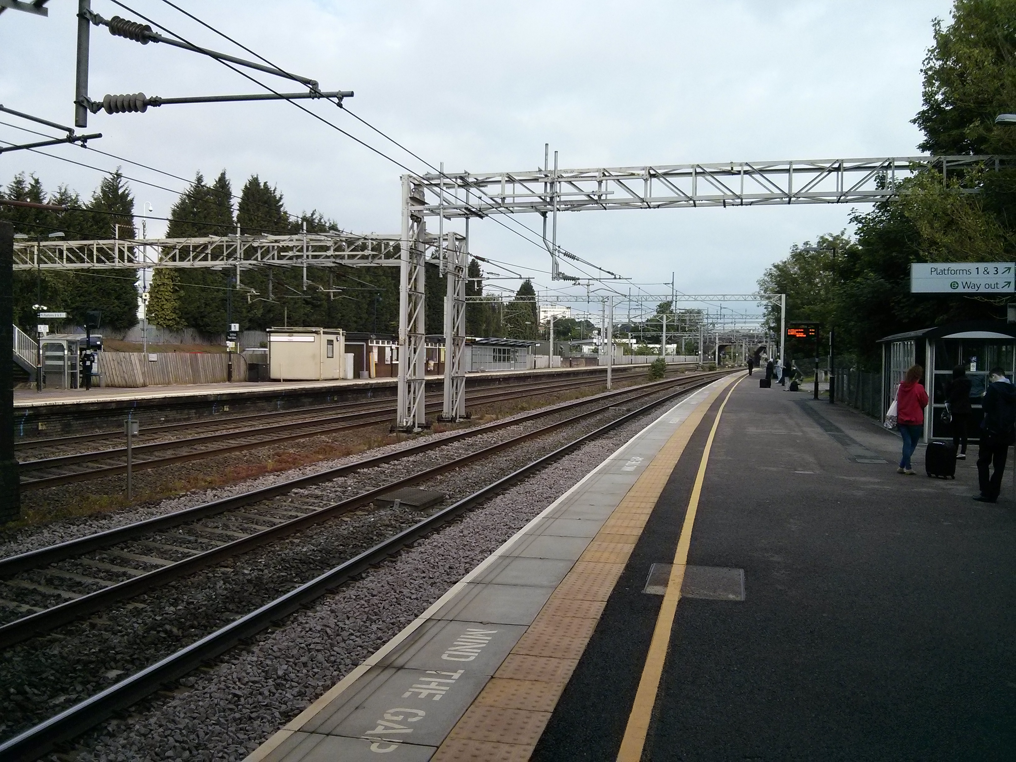 Lichfield Trent Valley station in June 2014. View from Platform 2 looking towards Platform 1 with, from left, Virgin Trains cabin, 1980's station building and newly completed 2014 station building. Note that this image was taken from a similar point to the 1962 image of the station and shows how much the station has changed in 50 years.